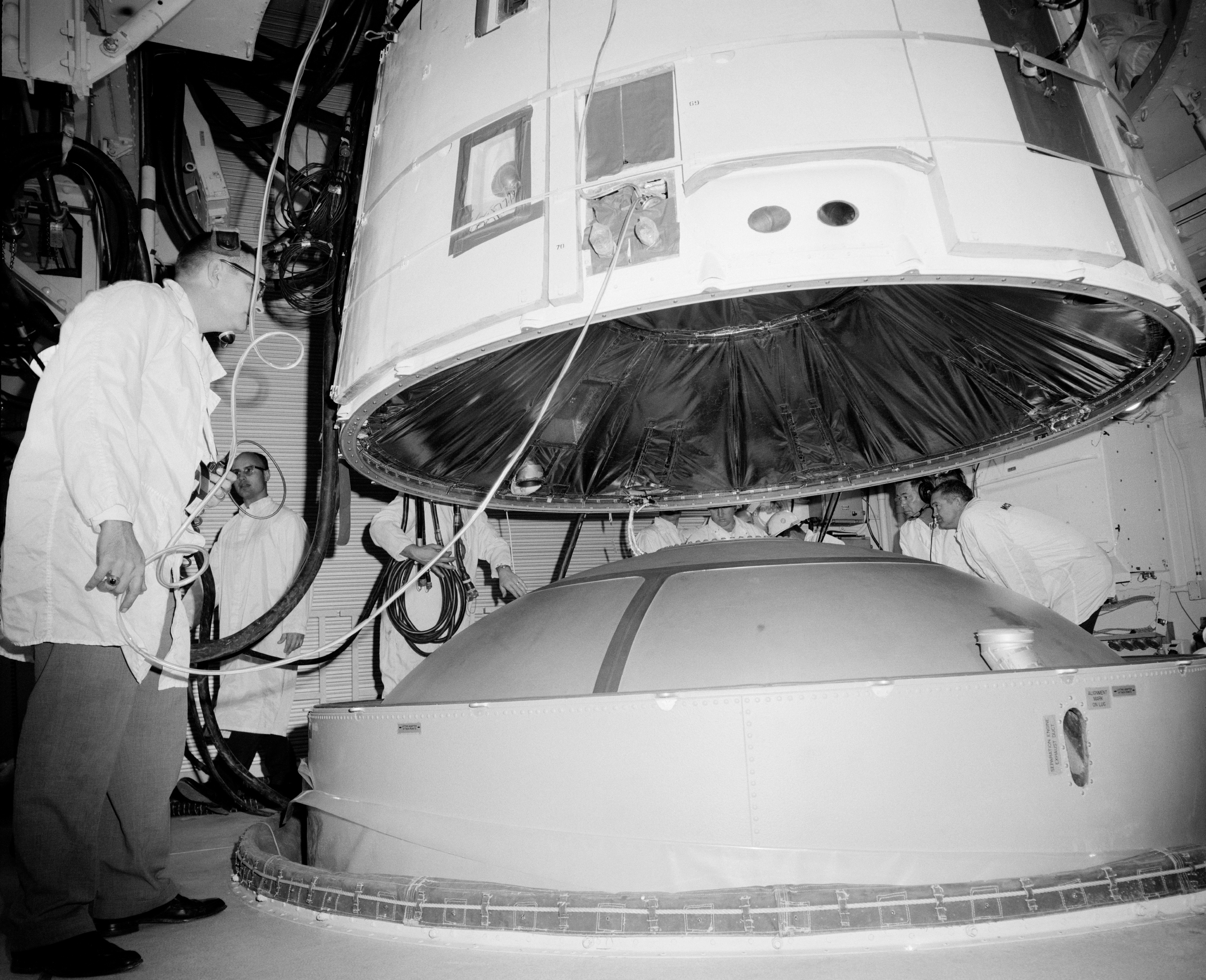 The Gemini 3 spacecraft is mated with the Titan II launch vehicle in the white room of Pad 19 at the Kennedy Space Center. Virgil I. (Gus) Grissom and John Young rode the capsule into space on March 23, 1965 for a mission lasting almost five hours. The pair of astronauts tested out the spacecraft on the first manned Gemini flight.